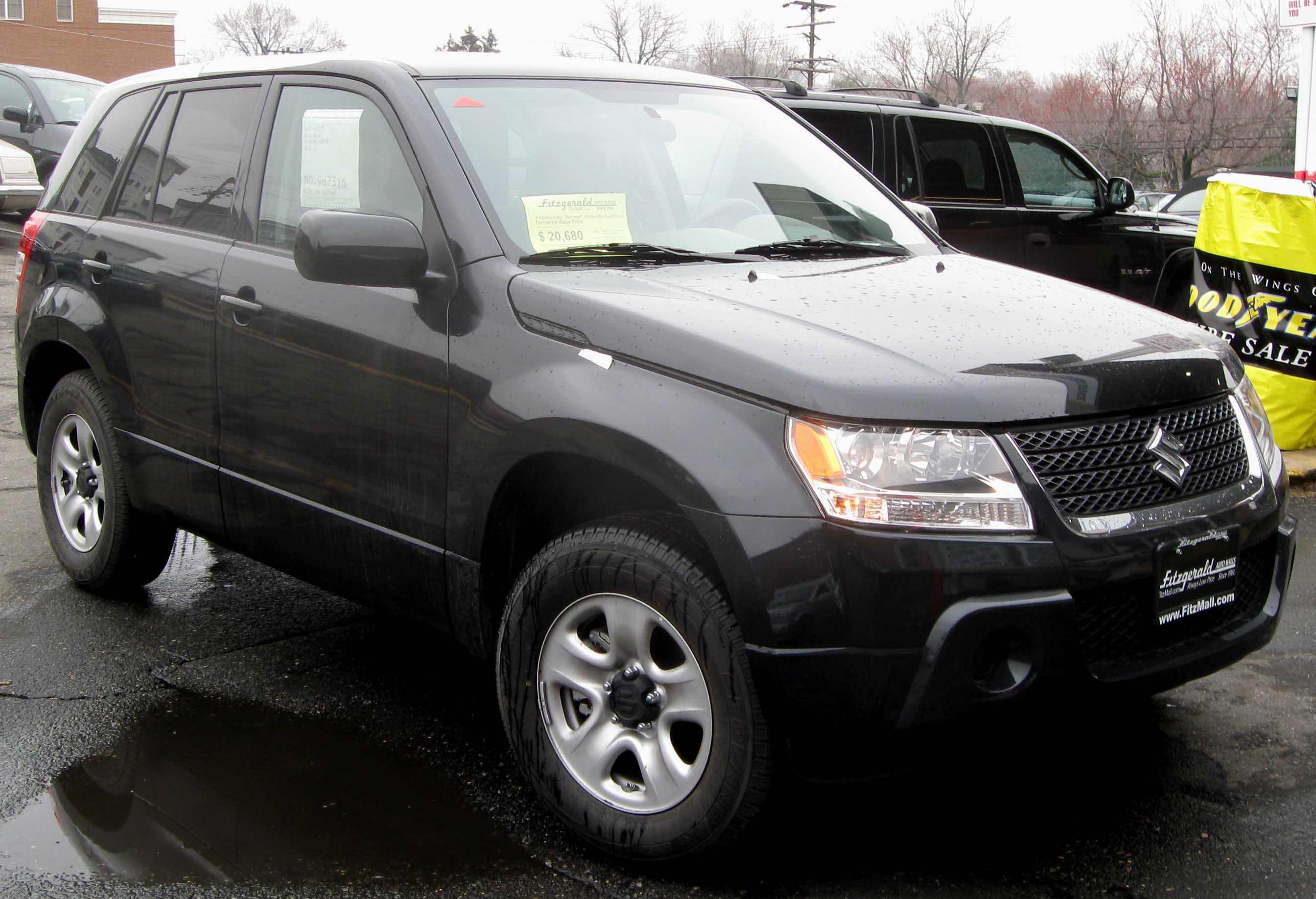 2009 Suzuki Grand Vitara photographed in Wheaton, Maryland, USA.